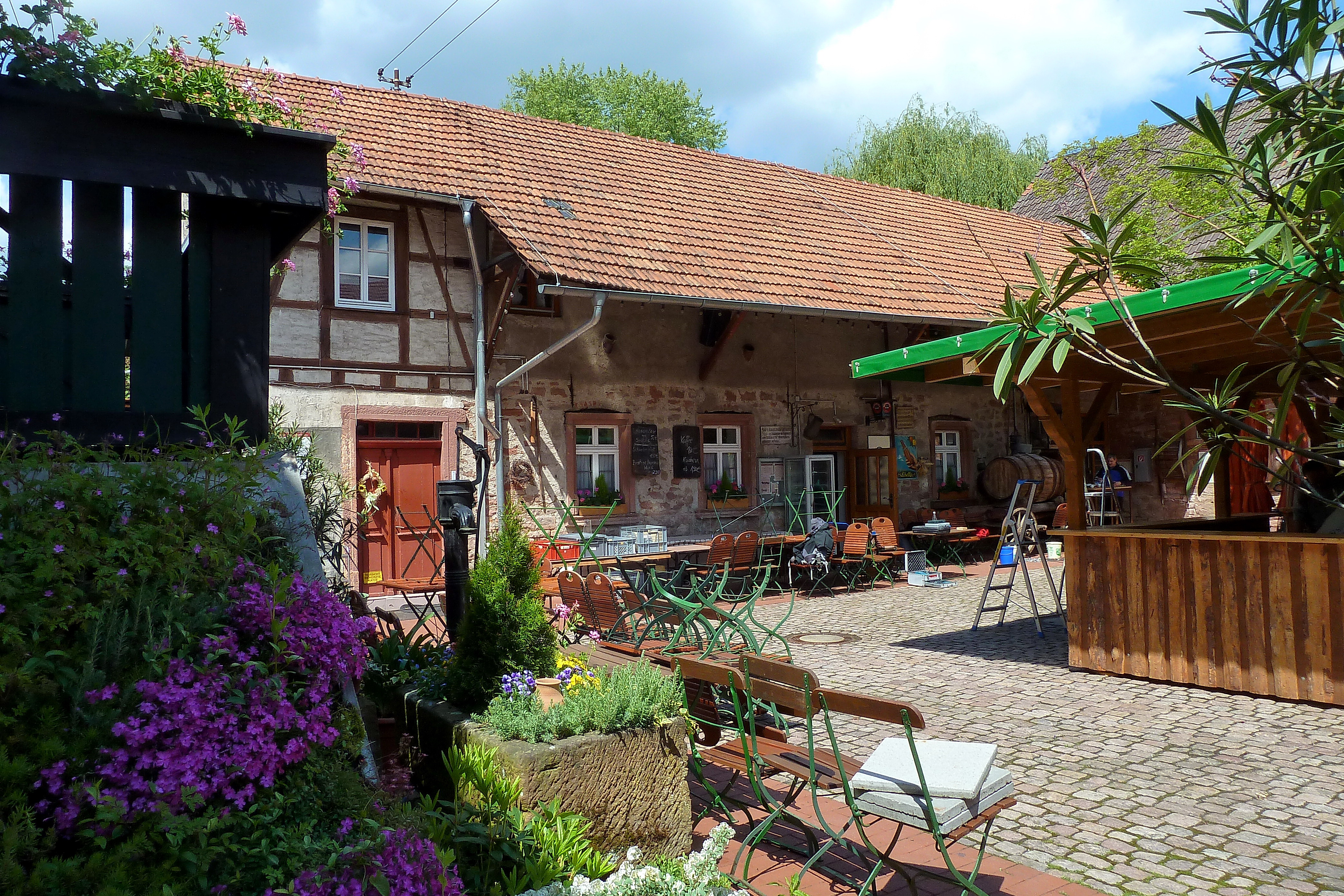 Gruberhof, inner courtyard